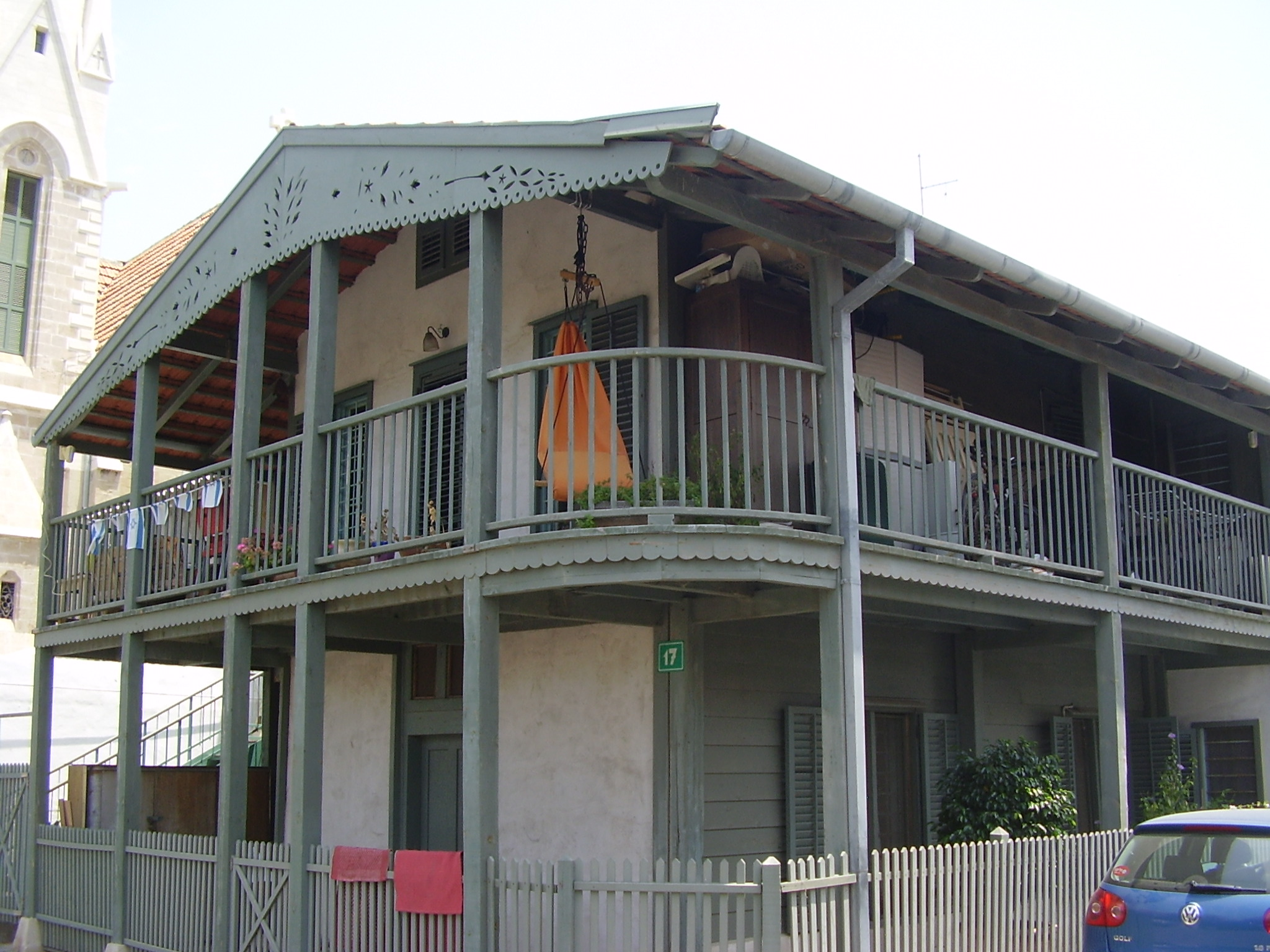 renovated wooden house in the german colony in jaffa